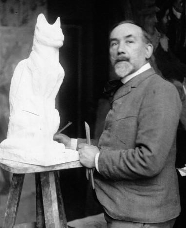 French artist Théophile Alexandre Steinlen (1859-1923).